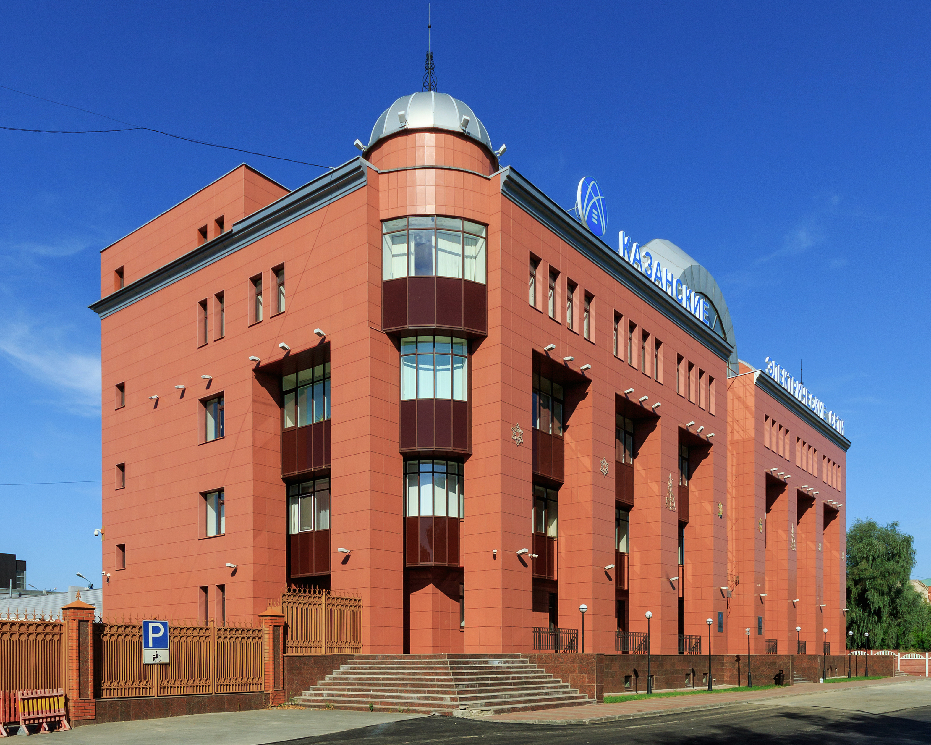 Building of Kazan Electric Networks (Tatenergo subdivision) in Kazan, Russia